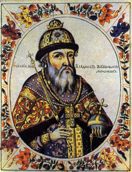 Vladimir II Monomakh, ruler of Kievan Rus' (1113 – 1125)